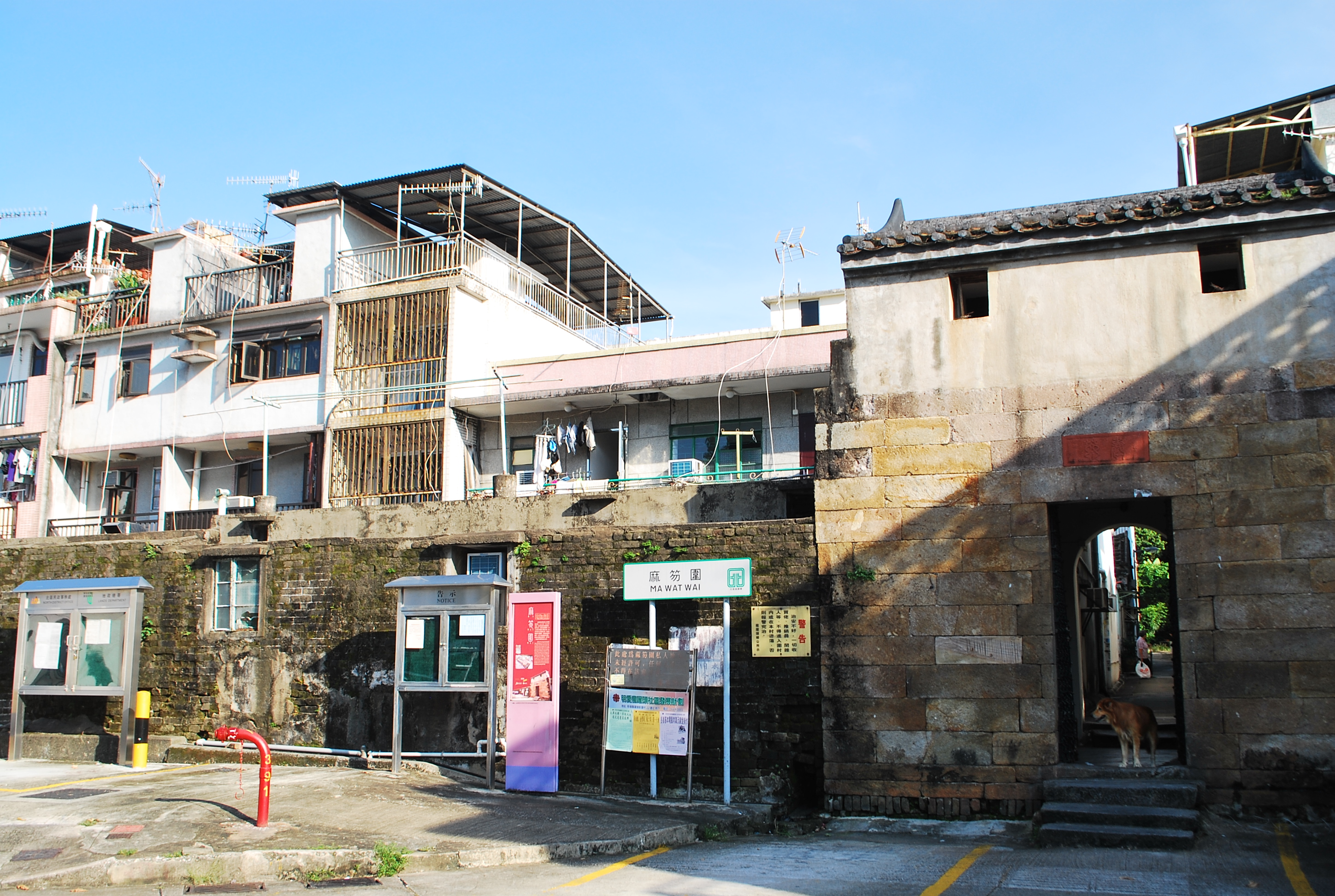 The front gate of Ma Wat Wai village, Fanling, Hong Kong. Listed as one of the declared monuments, it is a authentic example of "walled village" which is typical in New Territories.中文（香港）: 麻笏圍村，位於香港新界粉嶺龍躍頭。為香港法定古跡。圖中所見為該村之圍門。